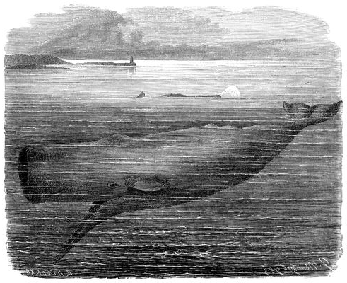 Pottwal, Spermwal, Physeter catodon, Physeter macrocephalus)